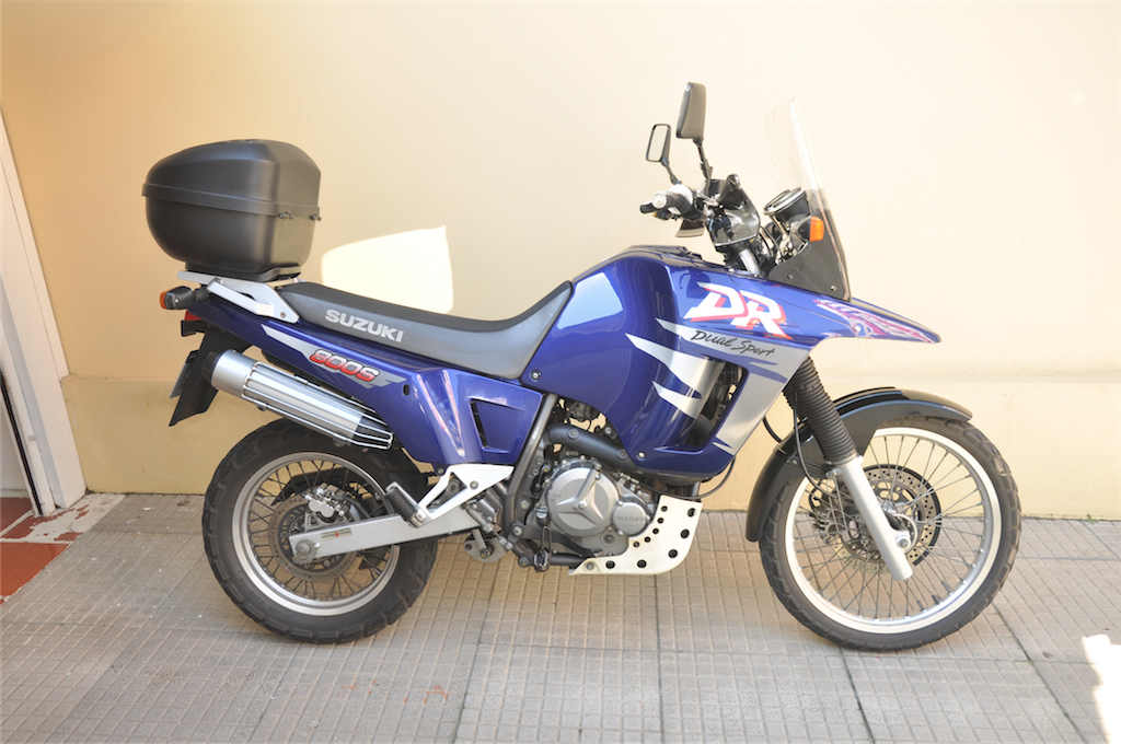 Suzuki DR 800s